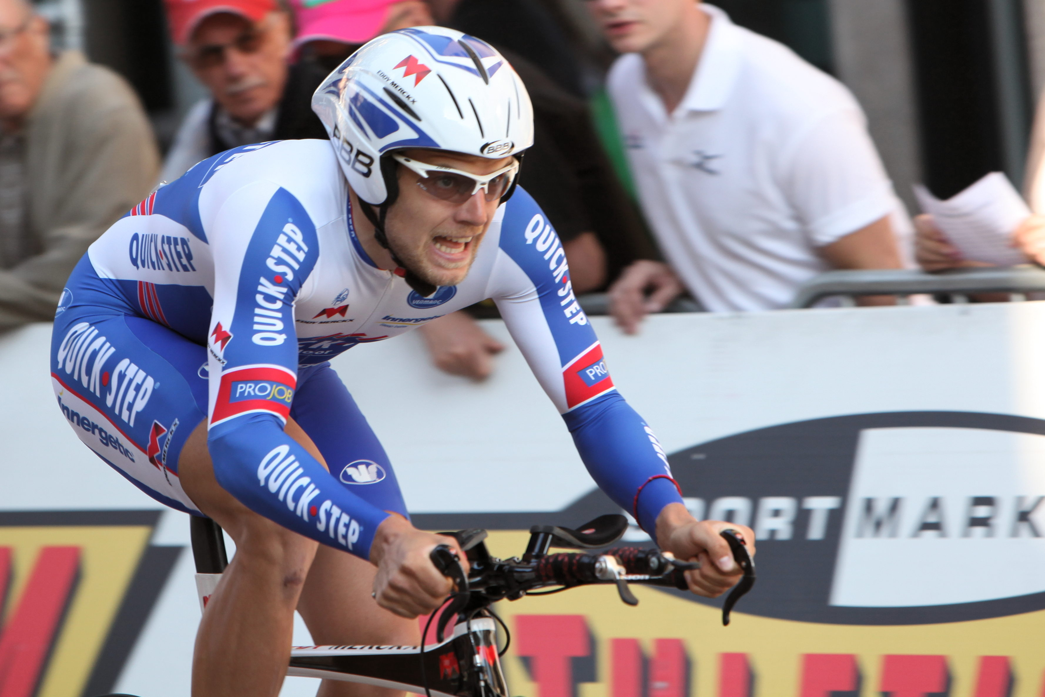 Gerald Ciolek at the prologue of the Tour de Romandie 2011